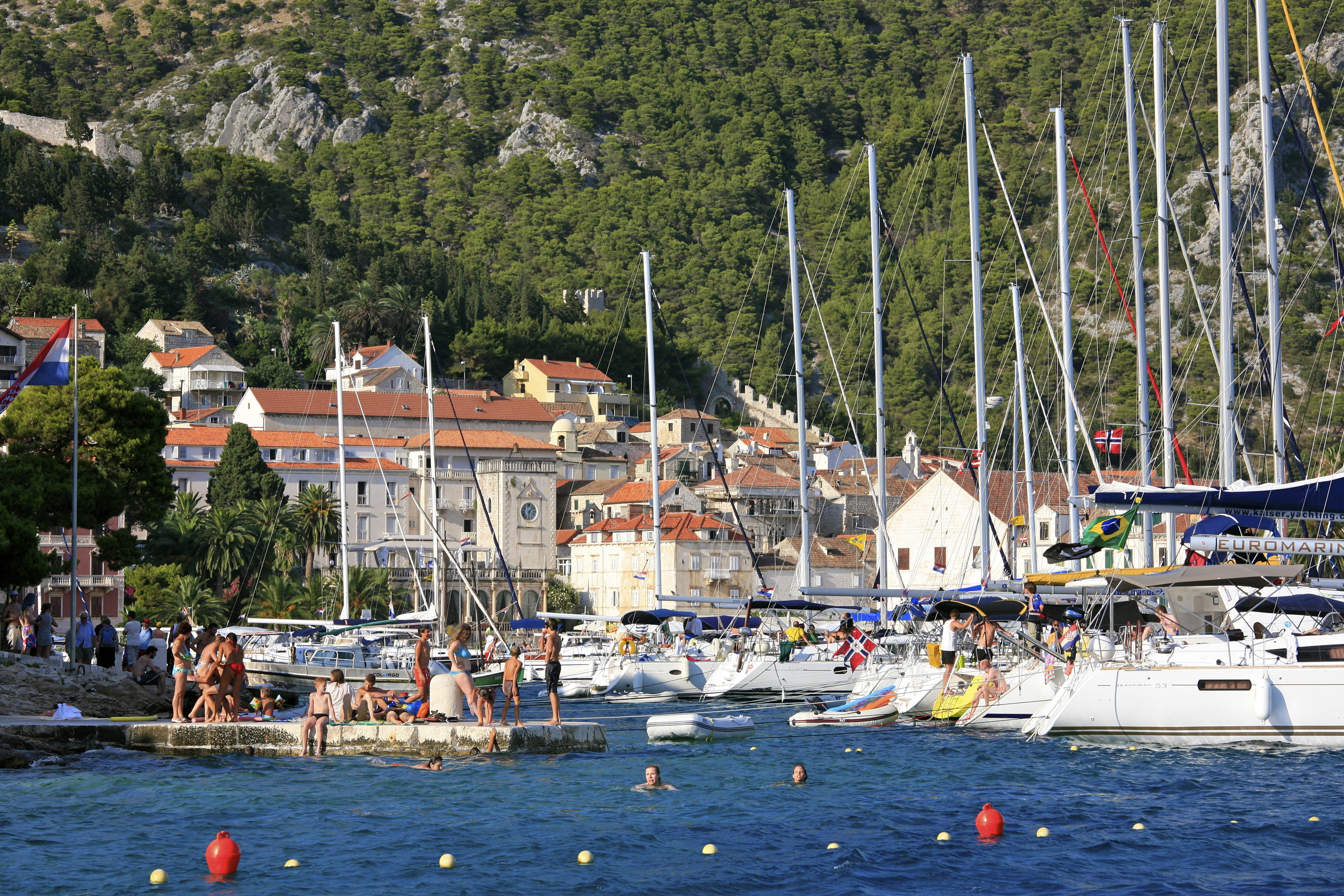 Hvar Town through the Yachts